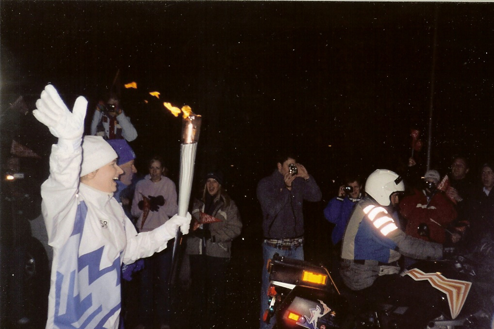 The 2002 Winter Olympics torch relay passing through Provo, Utah.